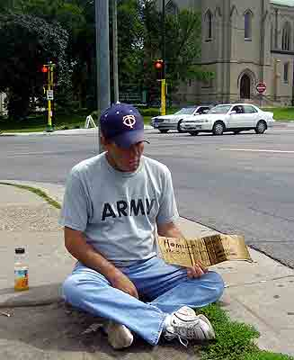 Beggar in front of Walker Art Center, Minneapolis, MN